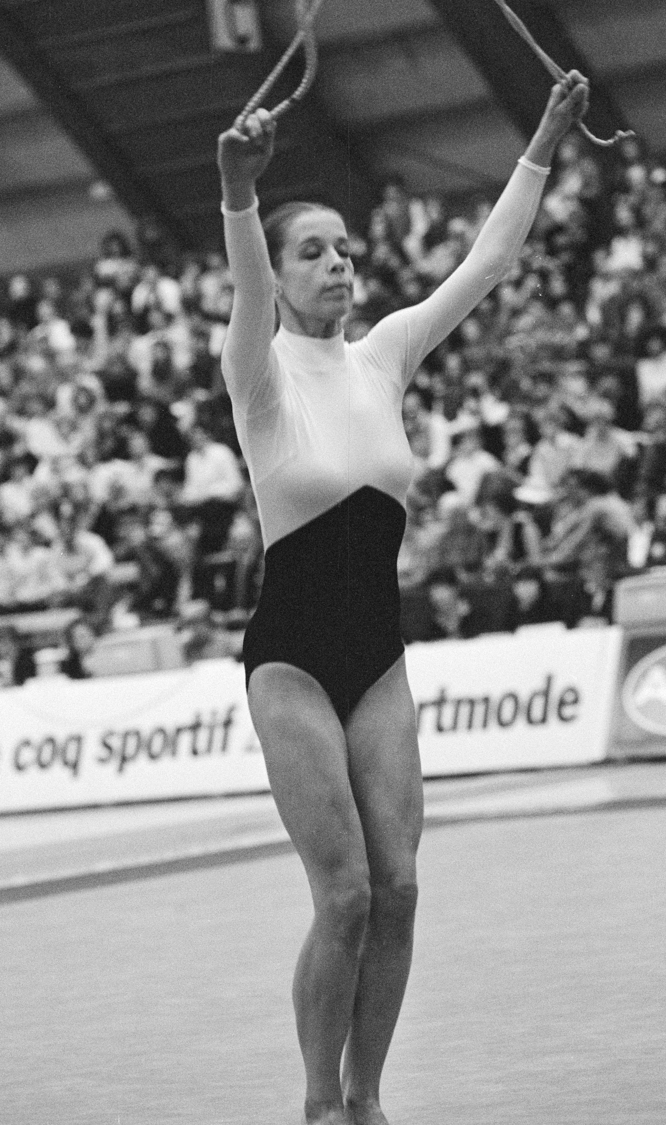 Europese kampioenschappen Ritmische Gymnastiek gehouden in Amsterdam, Weber (Duitsland)